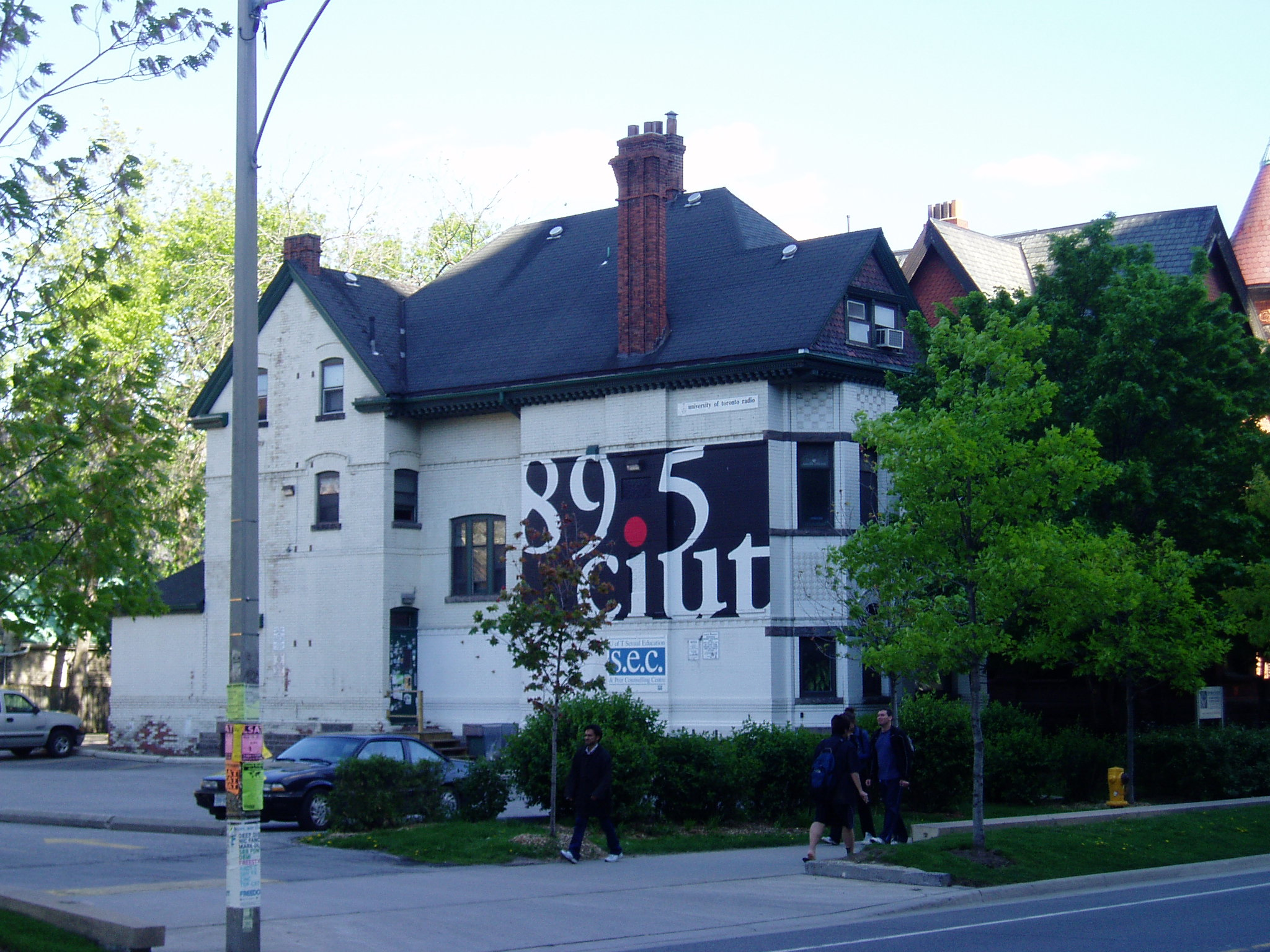 CIUT building